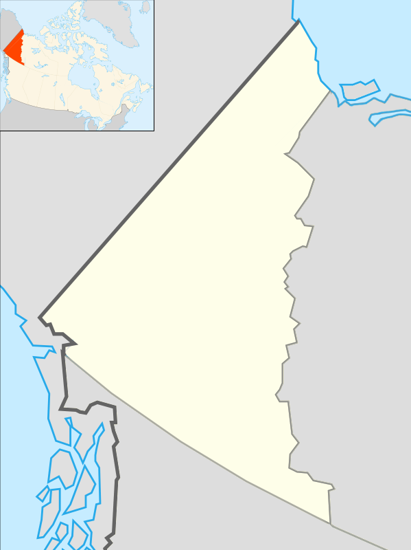 Map of Yukon